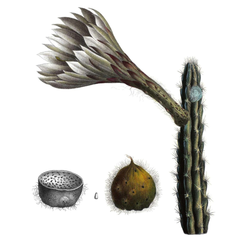 Harrisia eriophora